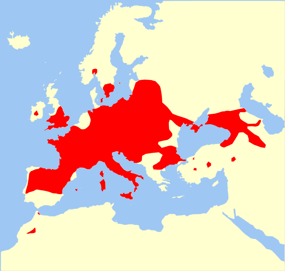 Barbastella barbastellus range map.